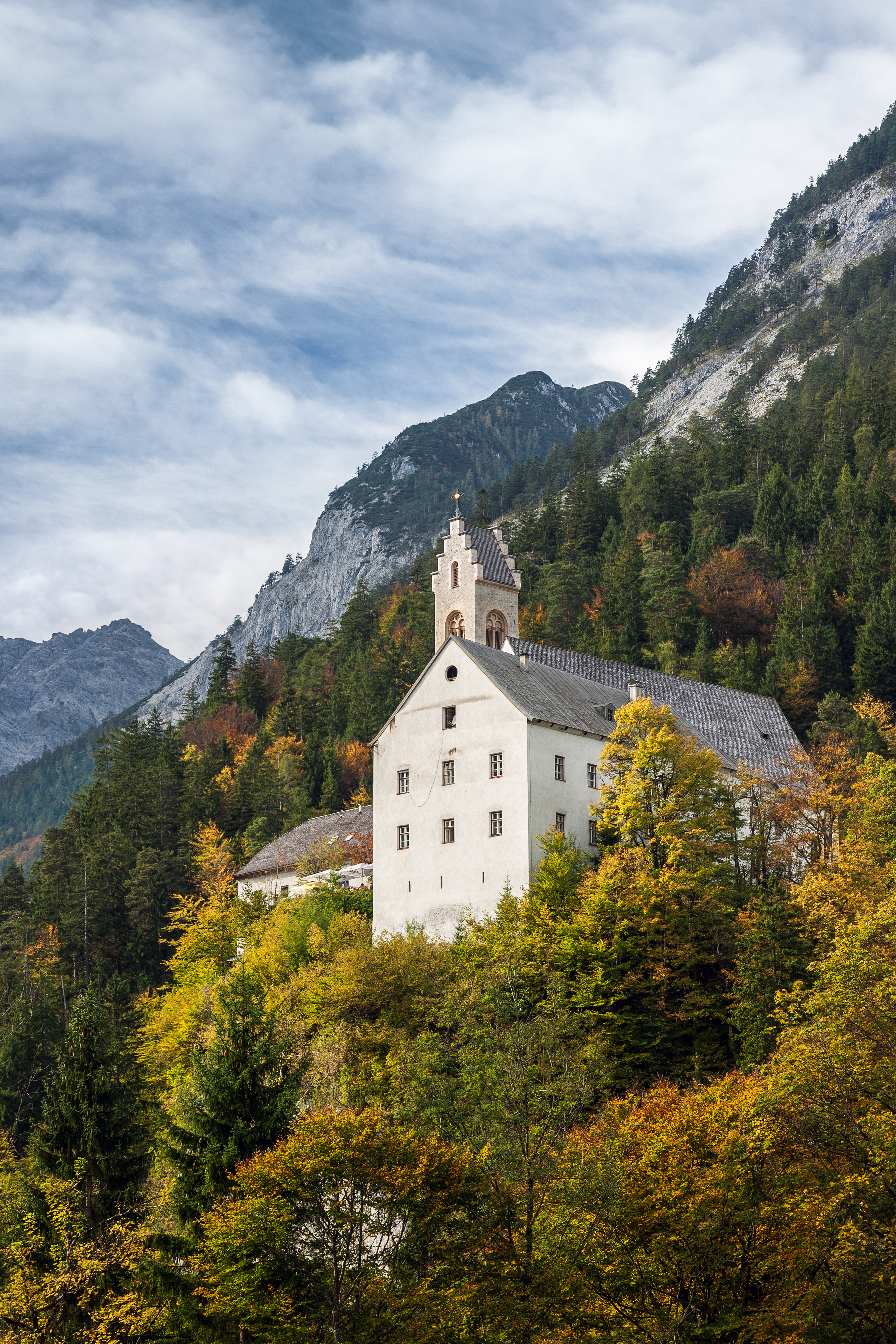 Benediktinerabtei St. Georgenberg-Fiecht Stans Austria